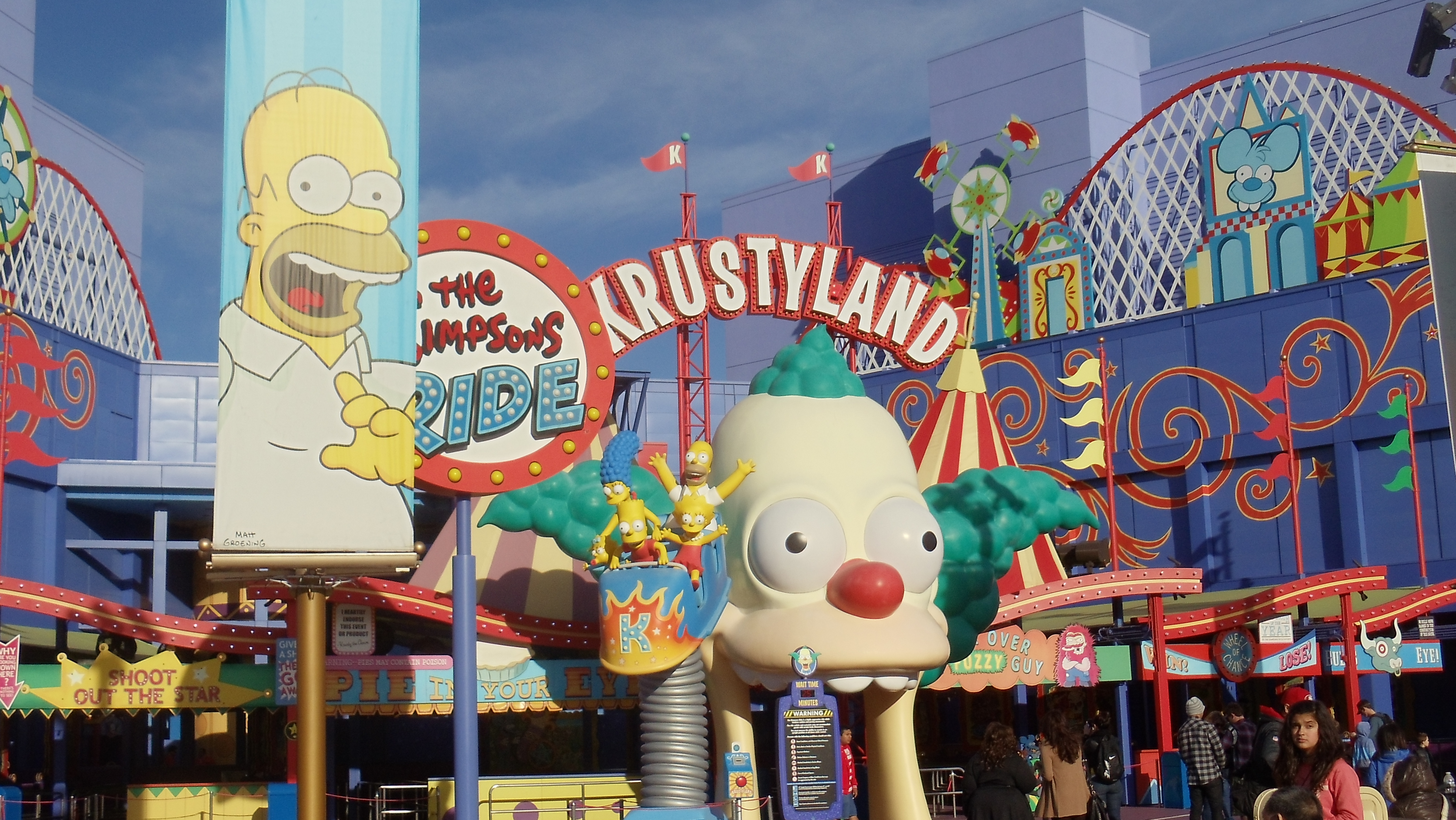 Entrance to the Simpsons ride. The Simpsons ride is a simulator ride which replaced the Back to the Future ride.